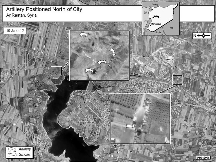 Artillery positioned north of Rastan, Syria. Smoke rising from building. Satellite image 10 June 2012.